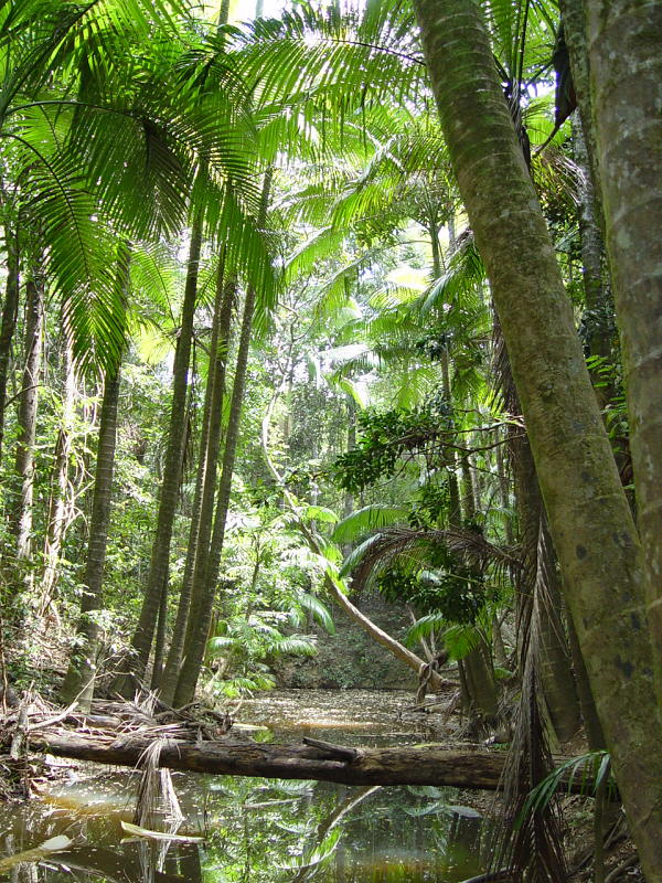 Archontophoenix myolensis A local species of bangalow palm that only occurs along creeks in the Myola district and also a few tens of kilometres further north at Black Mountain.